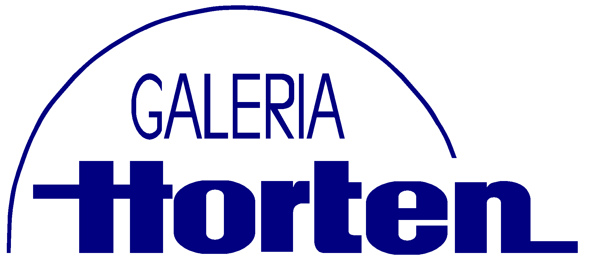 Logo of Horten, the former German department store chain; used for the modernized warehouses from 1988 to October 2003